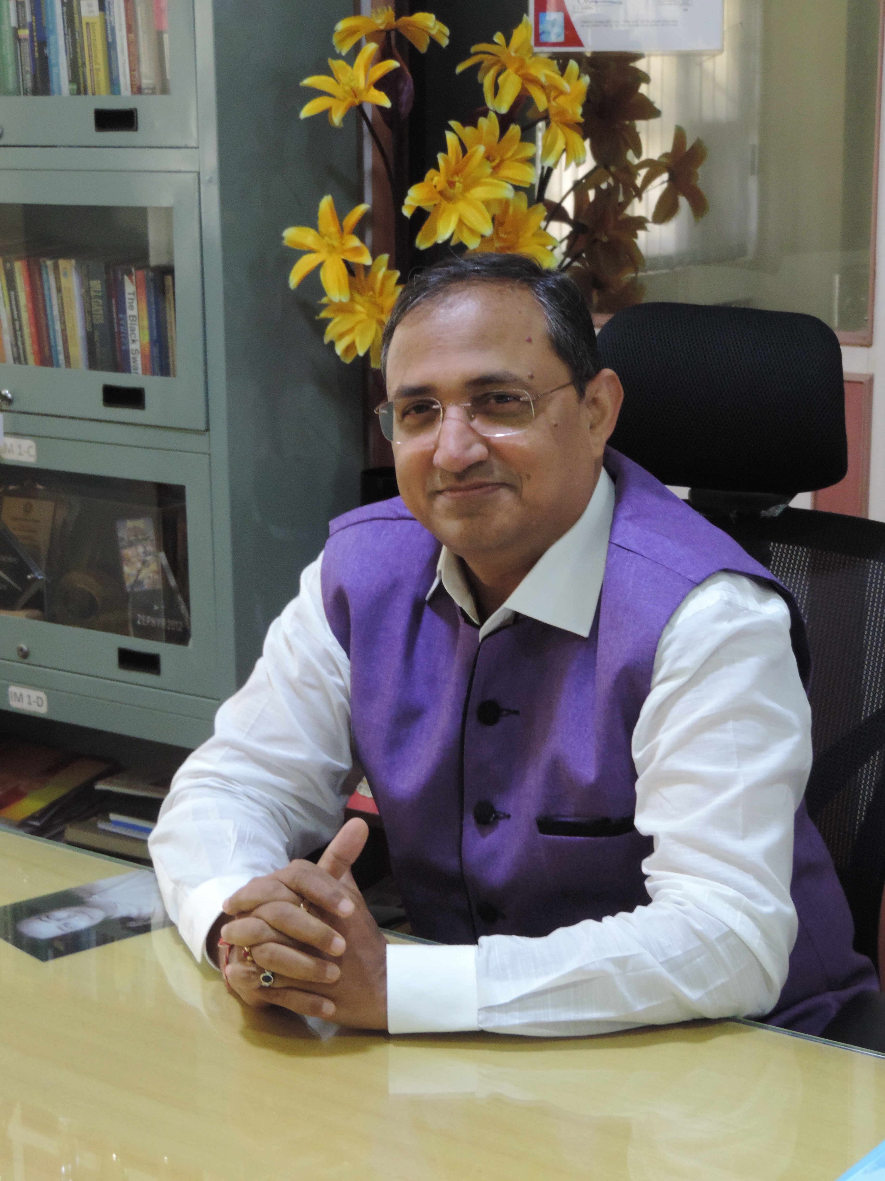 Professor of Strategy and Director at VES Institute of Management Studies and Research, Mumbai